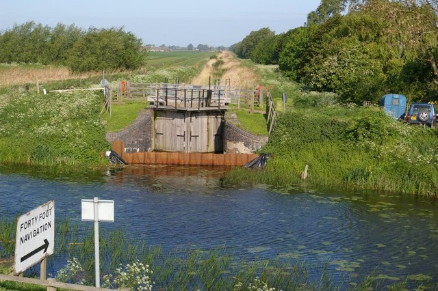 Forty Foot lock. The disused lock at Welches Dam, Bedfordshire, England, on 19 May 2007.